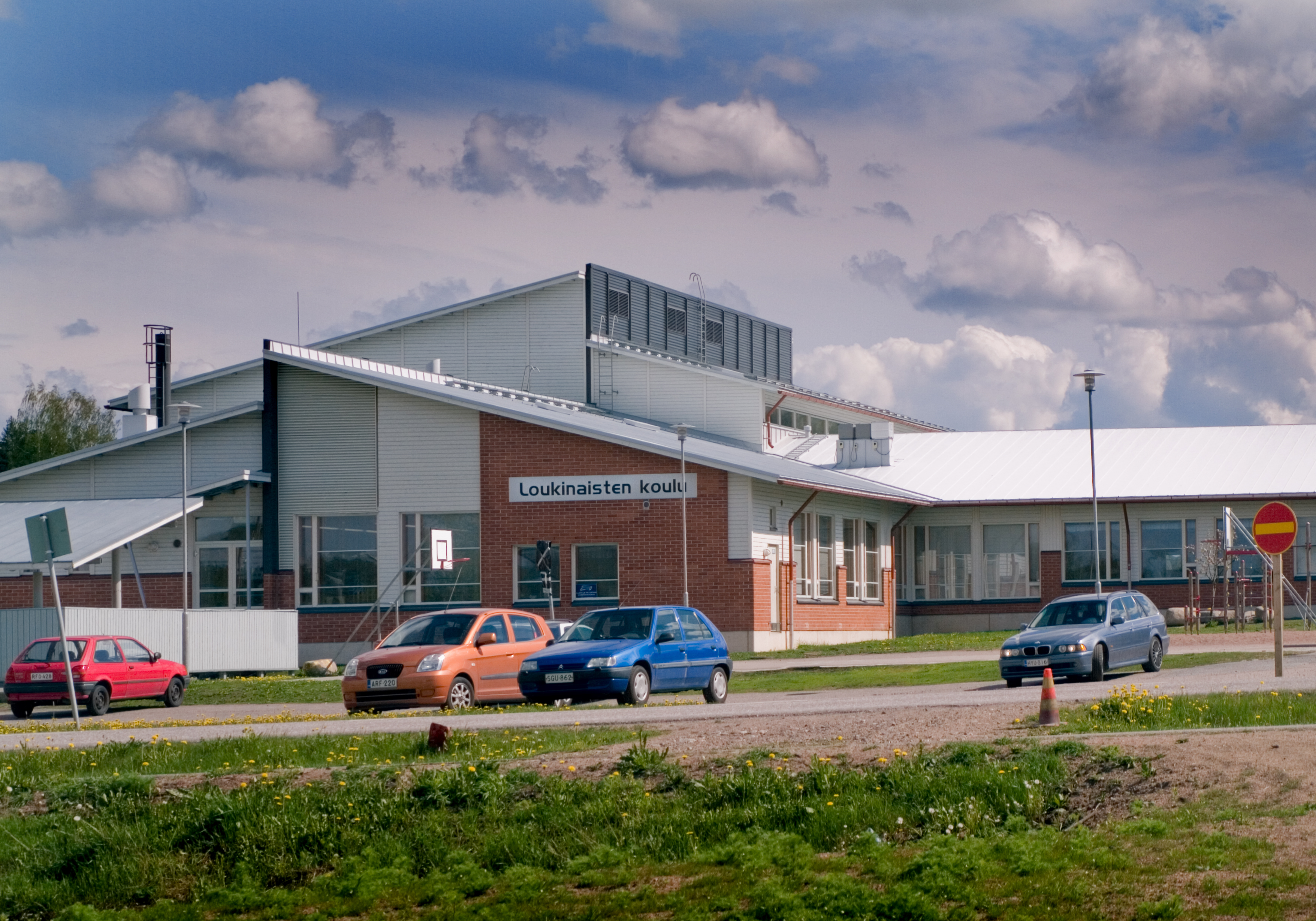 Elementary school in Loukinainen, Lieto, Finland. May 2014.